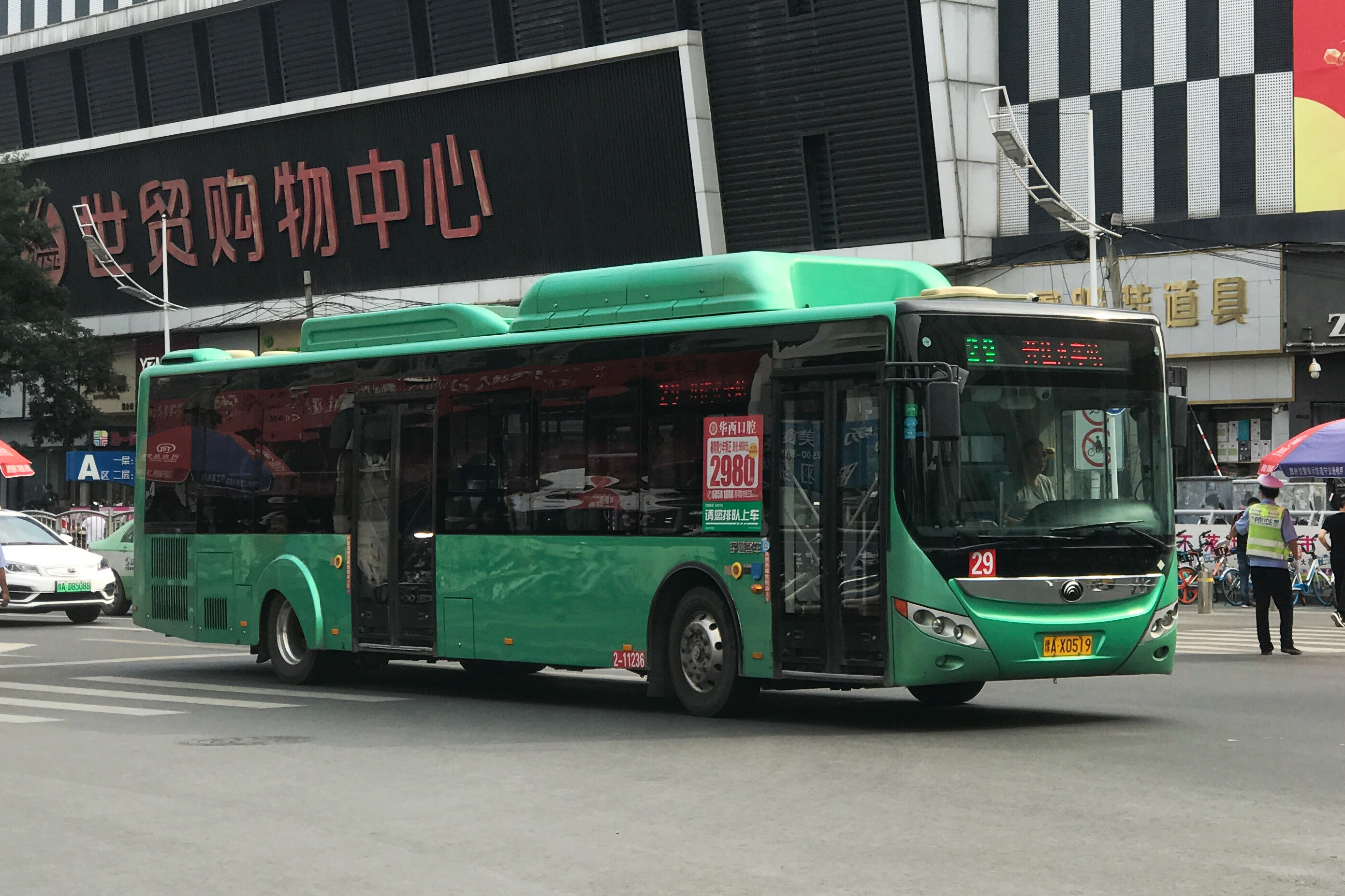 Yutong ZK6125CHEVNPG4 (2-11236) on Zhengzhou Bus Route 29